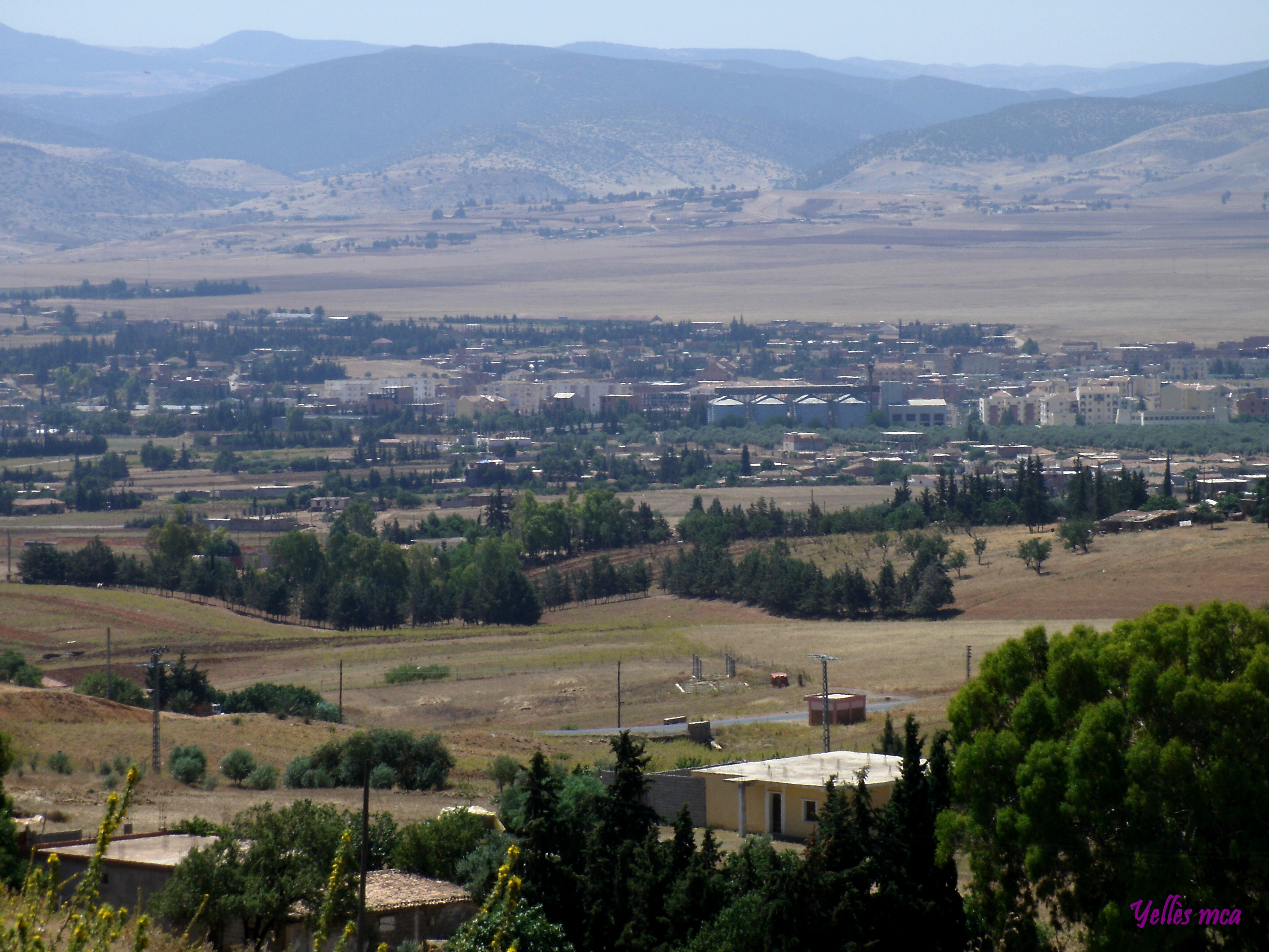 Béni Slimane, commune de la wilaya de Médéa en Algérie